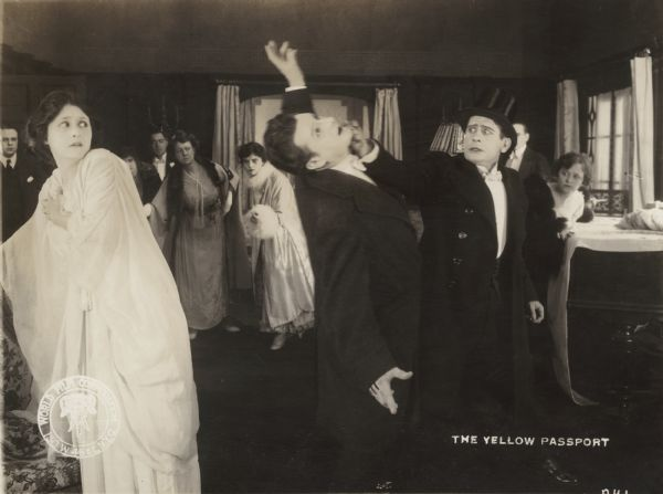 Clara Kimball Young reacts as John St. Polis is punched by Edwin August in a scene still from the 1916 silent drama The Yellow Passport.